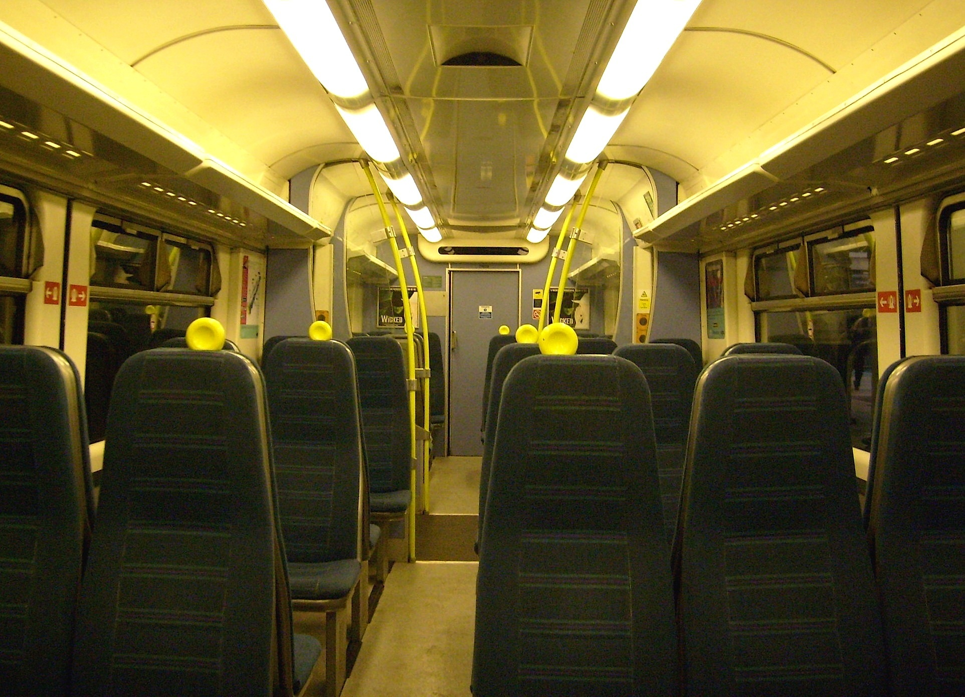 Interior of Southern refurbished Class 455/8 'First Series' DTSO vehicle